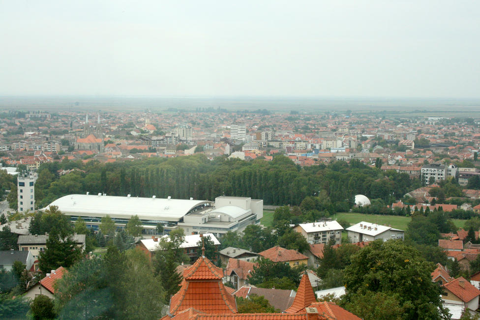 Vršac